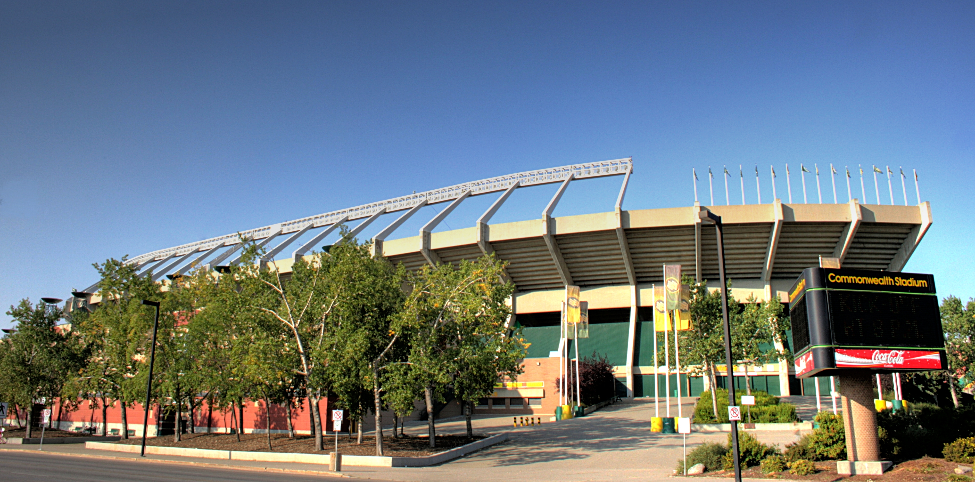 East exterior of Commonwealth Stadium in Edmonton, Alberta, Canada.